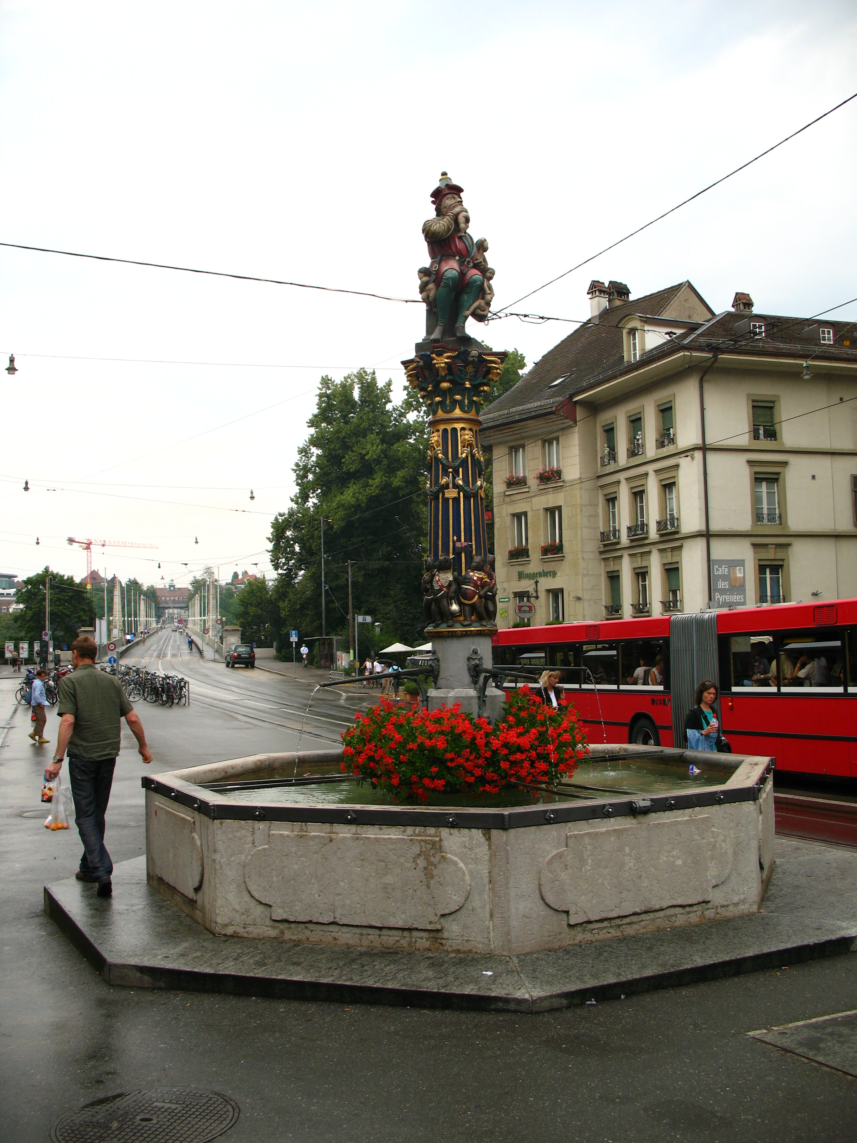 Ogre Fountain (lit. "Child Eater Fountain") at Corn House Square, Berne, Switzerland